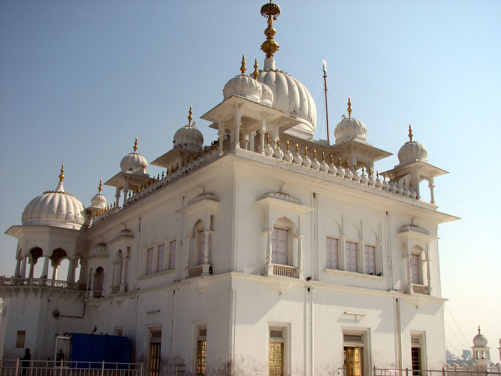 Takht Sri Keshgarh Sahib, Birthplace of the Khalsa